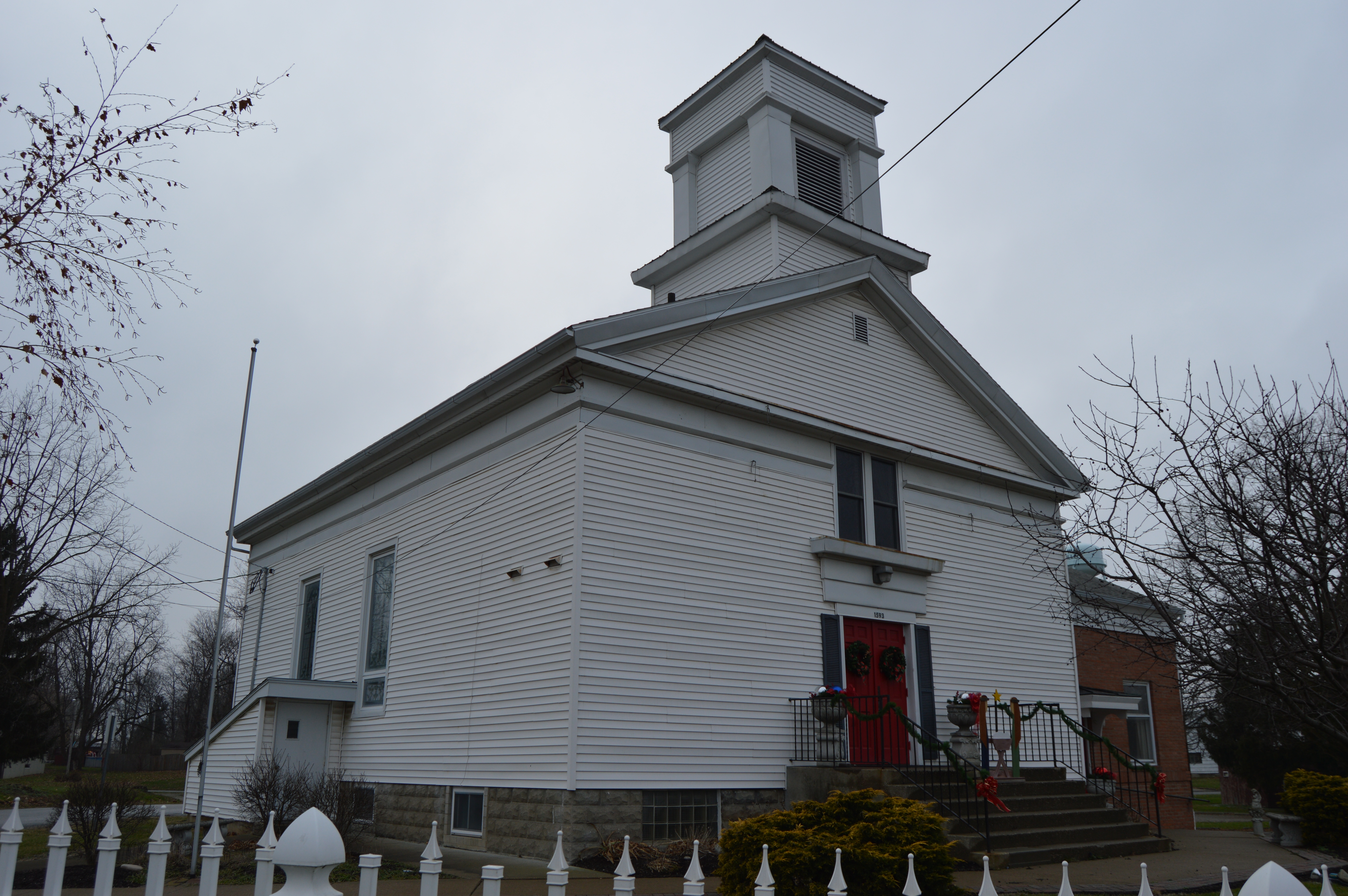 Front and southern side of the Fitchville United Methodist Church, located at 1593 U.S. Route 250 in Fitchville, Ohio, United States.